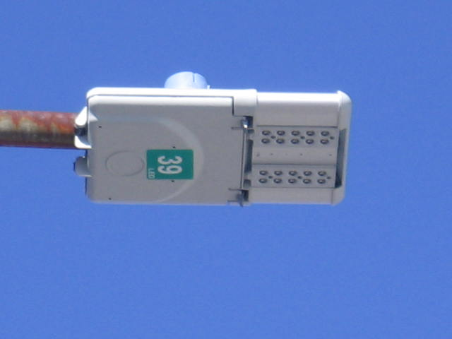 History of street lighting- Beta LED - Type 3 STR-LWY-1S-HT - 39W variant